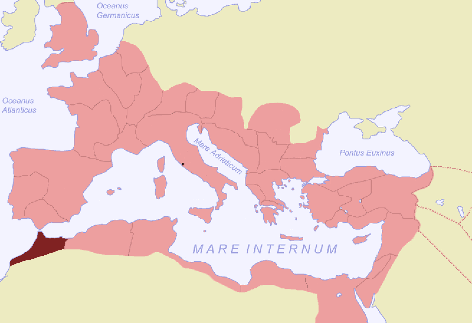 Map of the Roman Empire during 116, the province Mauretania Tingitana highlighted.